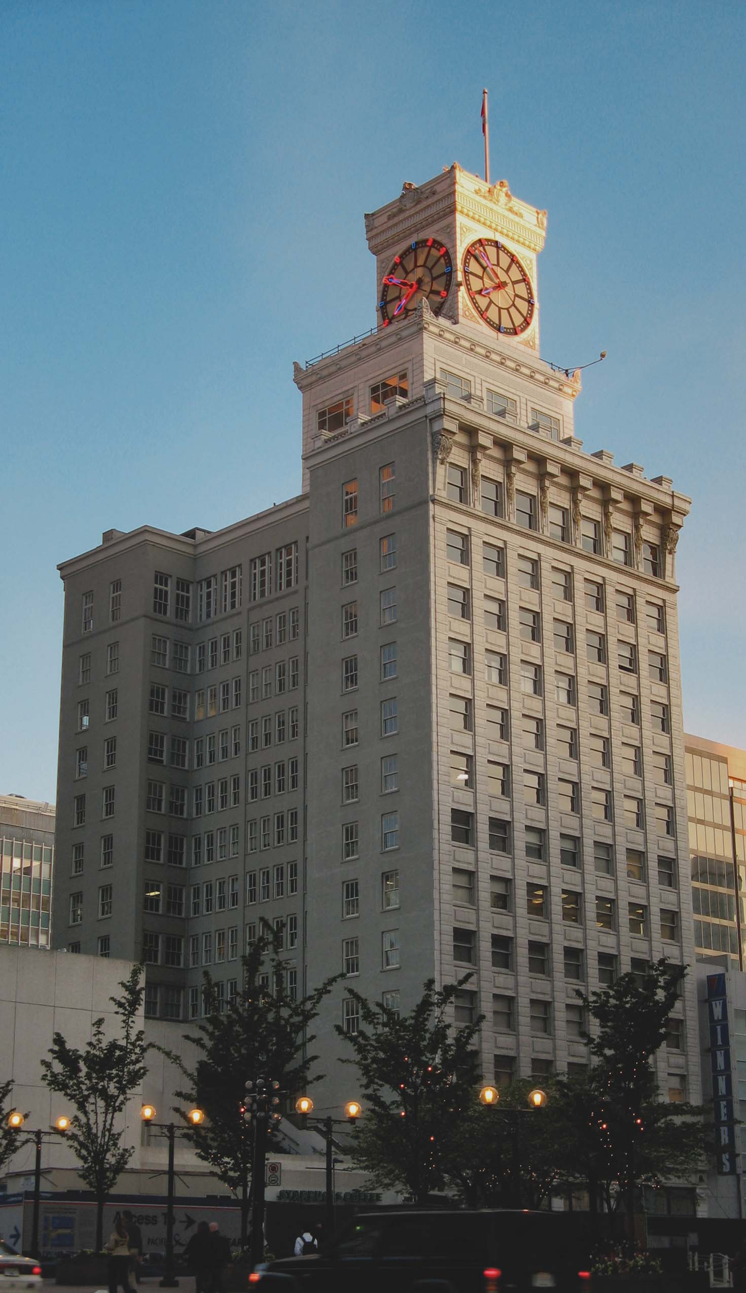 Vancouver Block on Granville Street, Vancouver. Taken by me on 20 April 2007.